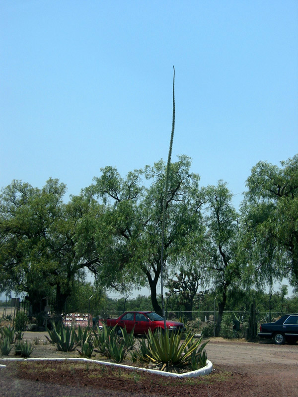 Wild Maguey in Mexico.